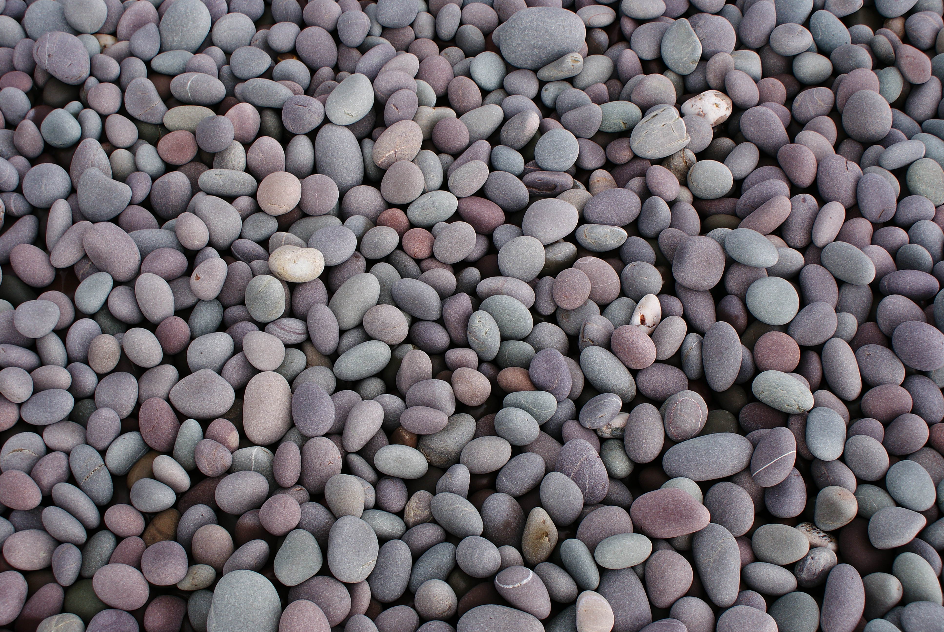 Pebbles with streaks of Quarzite, and of many colours, including purple, grey, blue, brown and green. Worn by the sea with contact marks. Taken on Bossington Shingle Beach in West Somerset, approximate to this location .